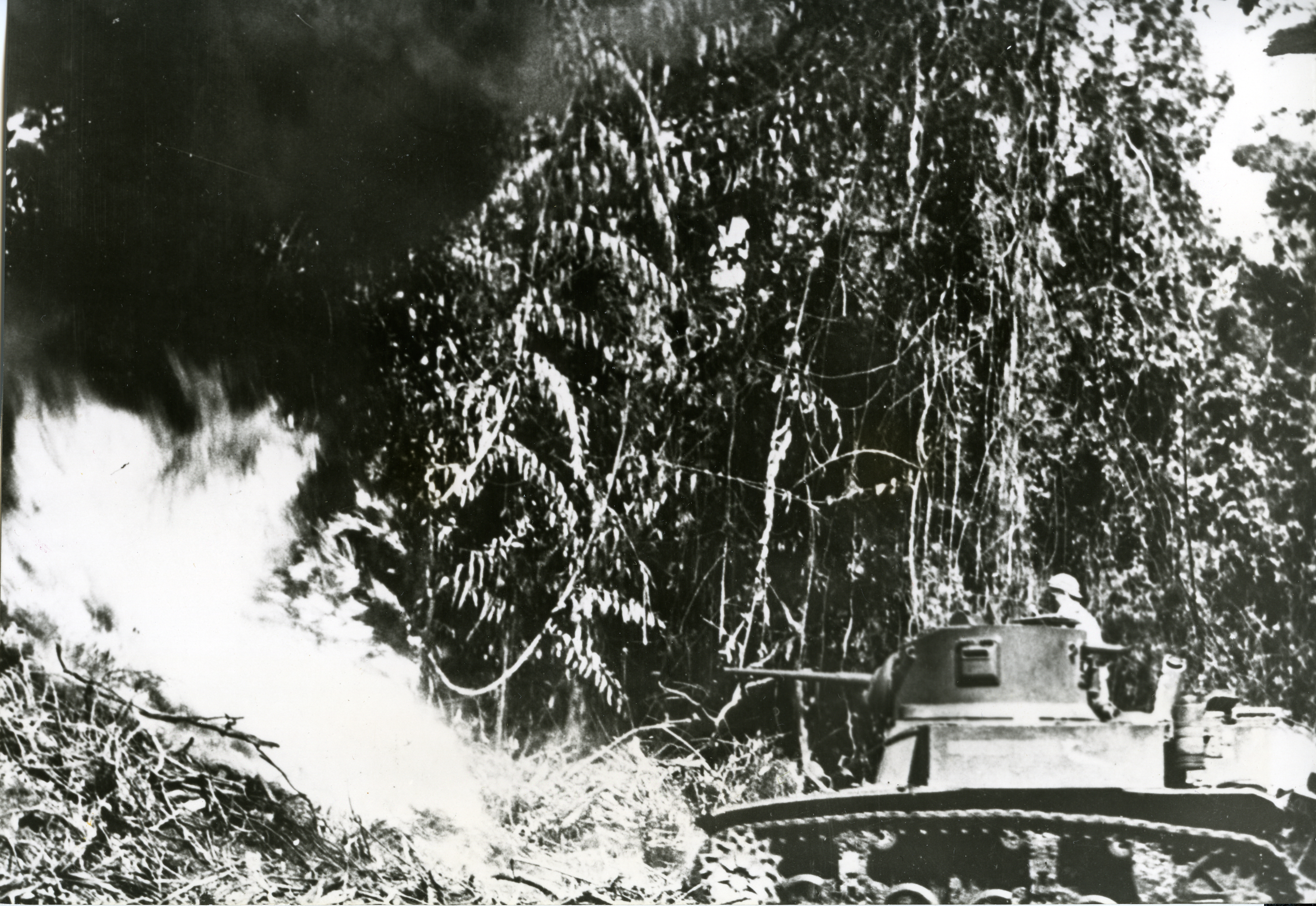 U.S. Flamethrowing tank blasts Japanese on Bougainville. Flames sear a Japanese pillbox as an American soldier emerges from the turret of a flame-throwing tank during the American advance on Bougainville Island in the Northern Solomons in the South Pacific. Tanks with flame-throwing units such as this one, have proved invaluable in the Bougainville fighting U.S. forces expanded their Empress Augusta Bay beachhead on the island's western coast after crushing desperate Japanese attempts to crack the American lines. In March 1944, alone, an estimated 5,000 Japanese soldiers were killed in the fighting on the island, where the enemy, entirely cut off from supplies, faces annihilation or capture.